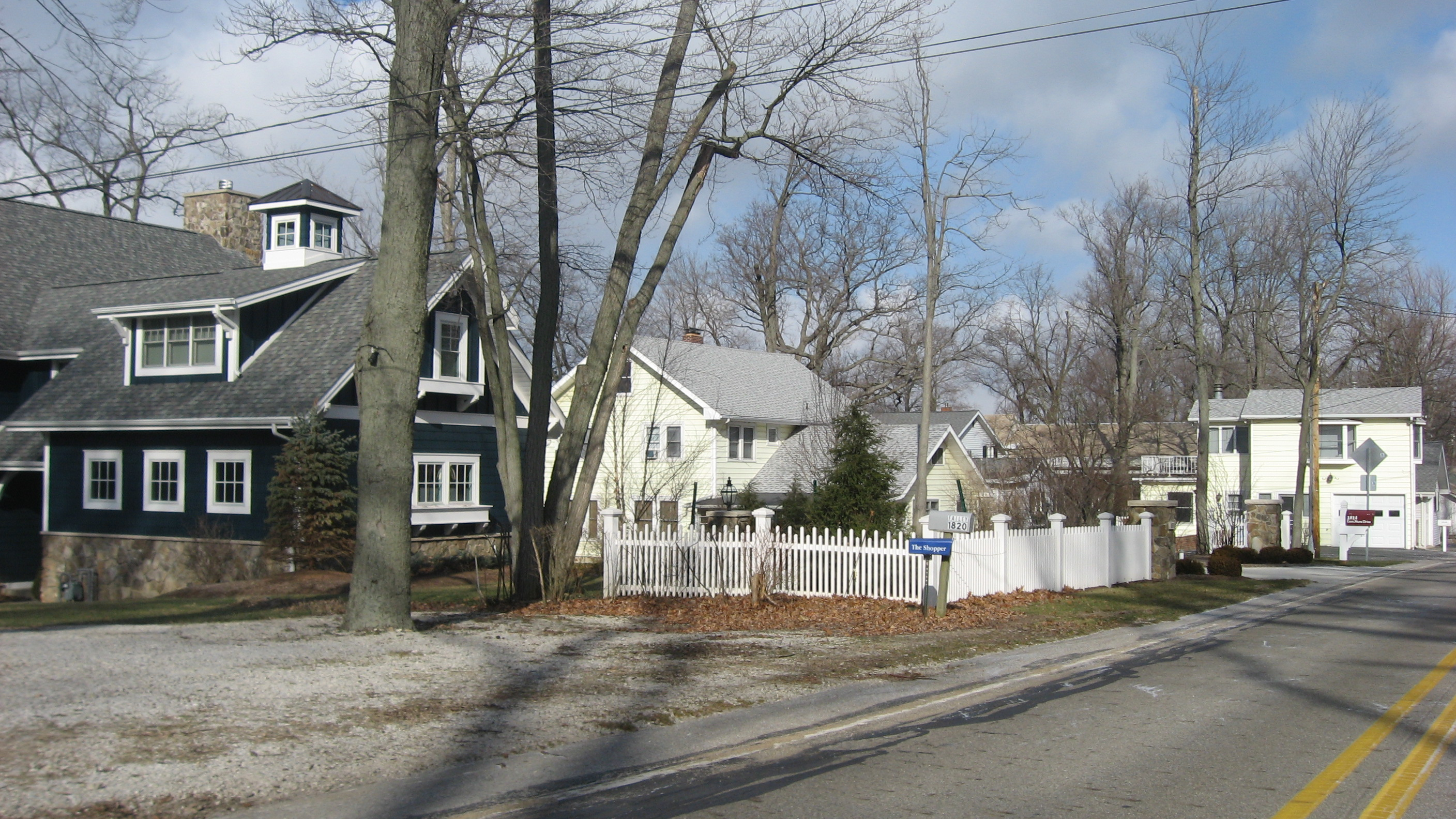 Lake cottages in the 1800 block of E. Lake Shore Drive (State Road 117) along Lake Maxinkuckee in Union Township, Marshall County, Indiana, United States. They are part of the East Shore Historic District, a historic district that is listed on the National Register of Historic Places.